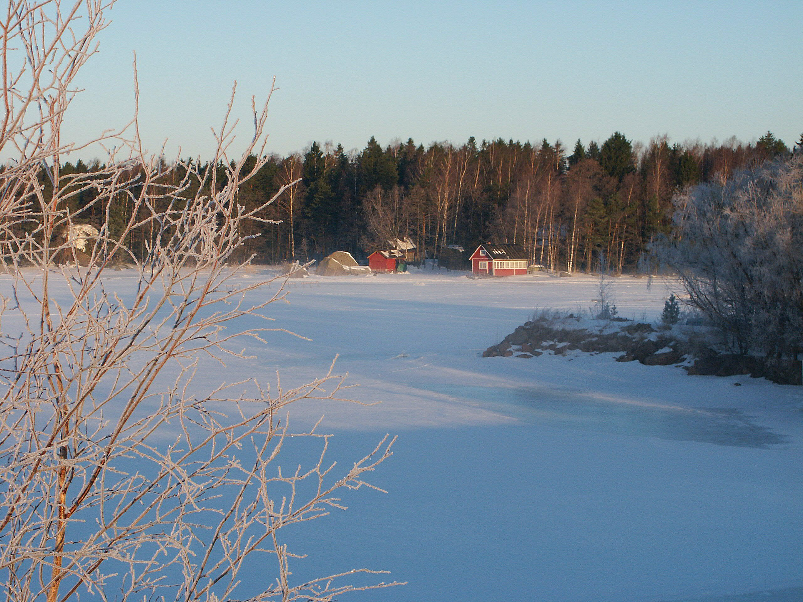 Afternoon; Winter Landscape; Finnish Houses; Landscape in Finland - Southern Finland - Kymenlaakso region